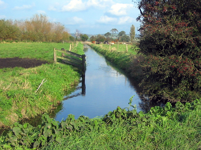 Rhyne (drainage ditch) near the Sedgemoor battle site A rhyne like this foiled Monmouth's night attack.